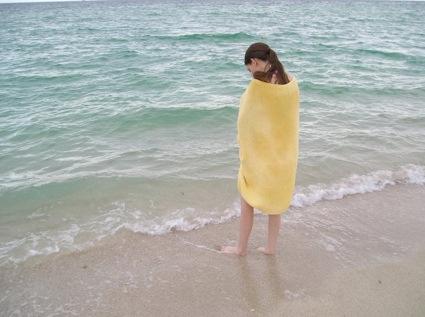 A girl standing on a beach in Miami